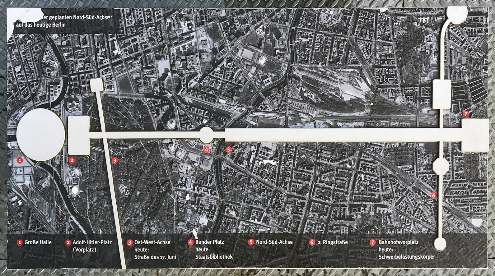 Memorial plaque, Schwerbelastungskörper, General-Pape-Straße 100, Berlin-Tempelhof, Deutschland